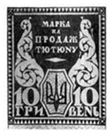 H.I.Narbut. Project of Revenue stamp UPR